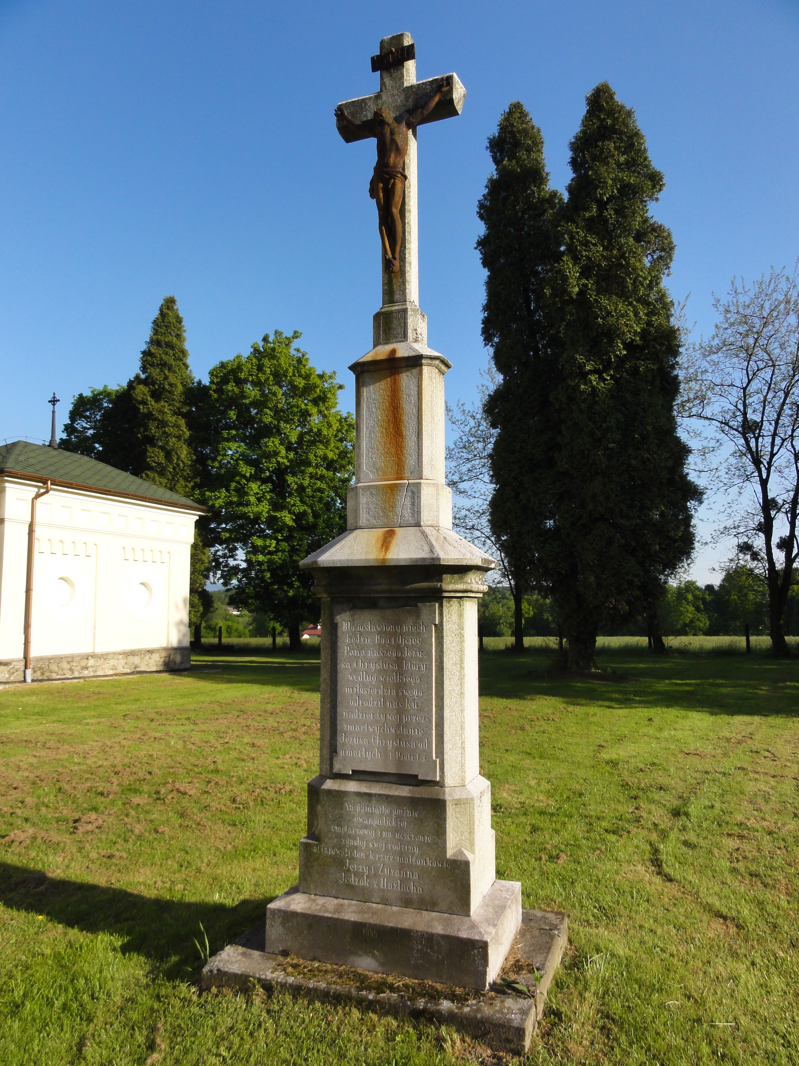 A cross beside lutheran church in Hażlach